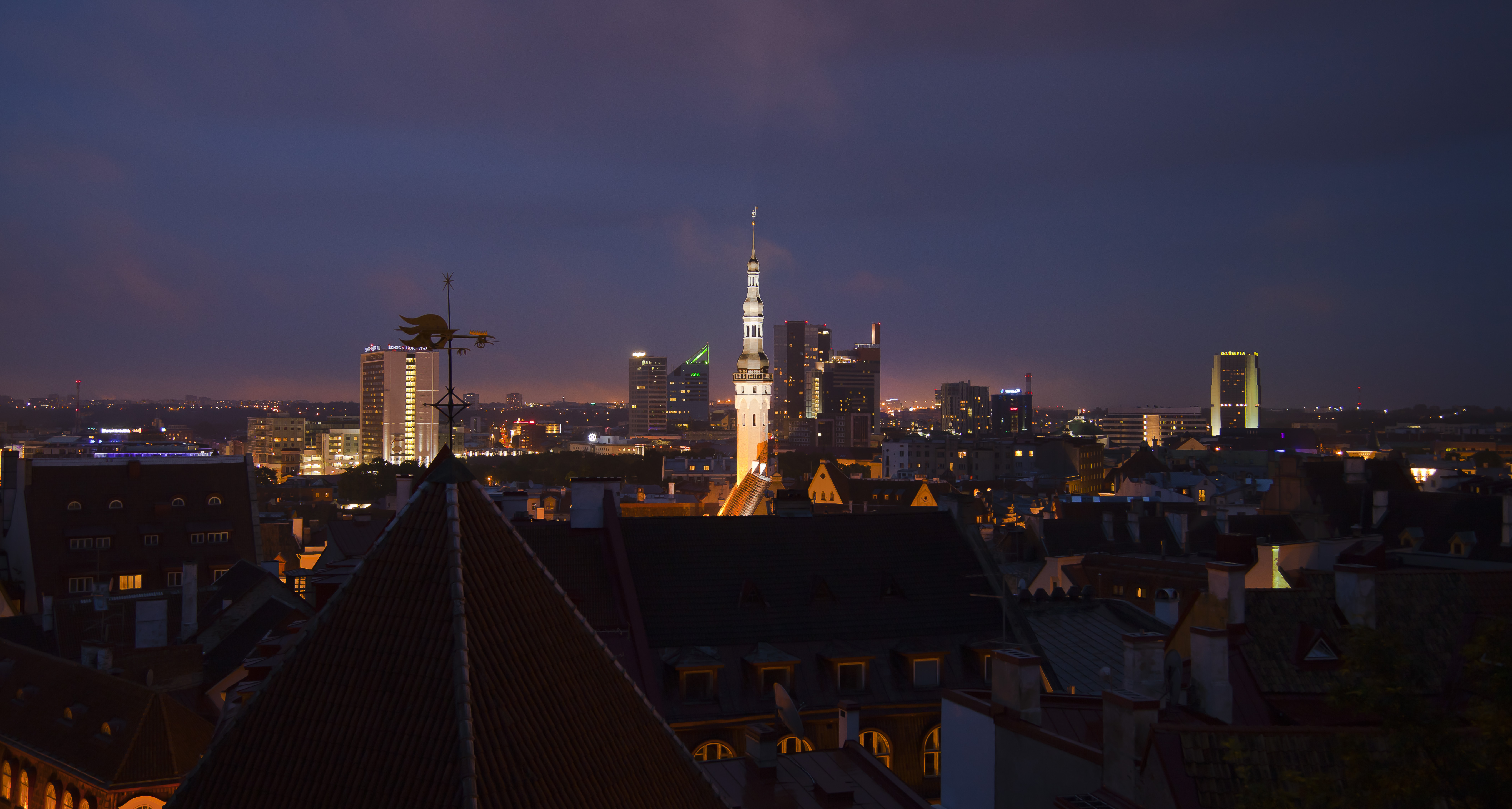 Tallinn Town Hall, view of Tallinn from Toompea, Estonia